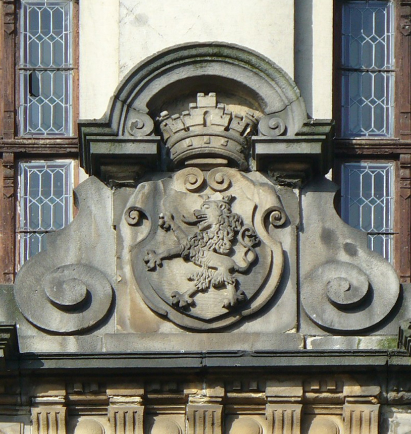 Coat of Arms of Kłodzko (Glatz) on the city hall